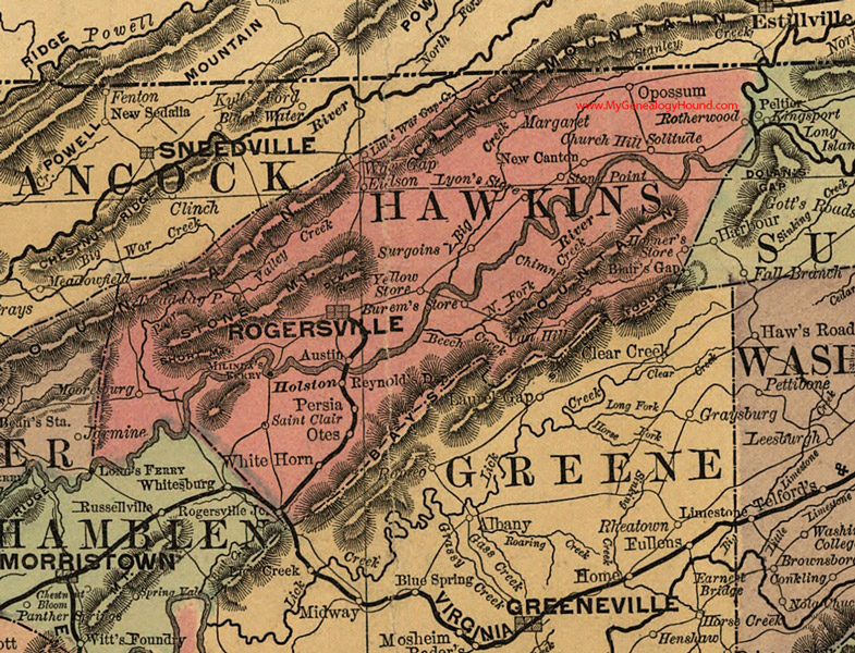 Map of portion of northeastern Tennessee circa 1882